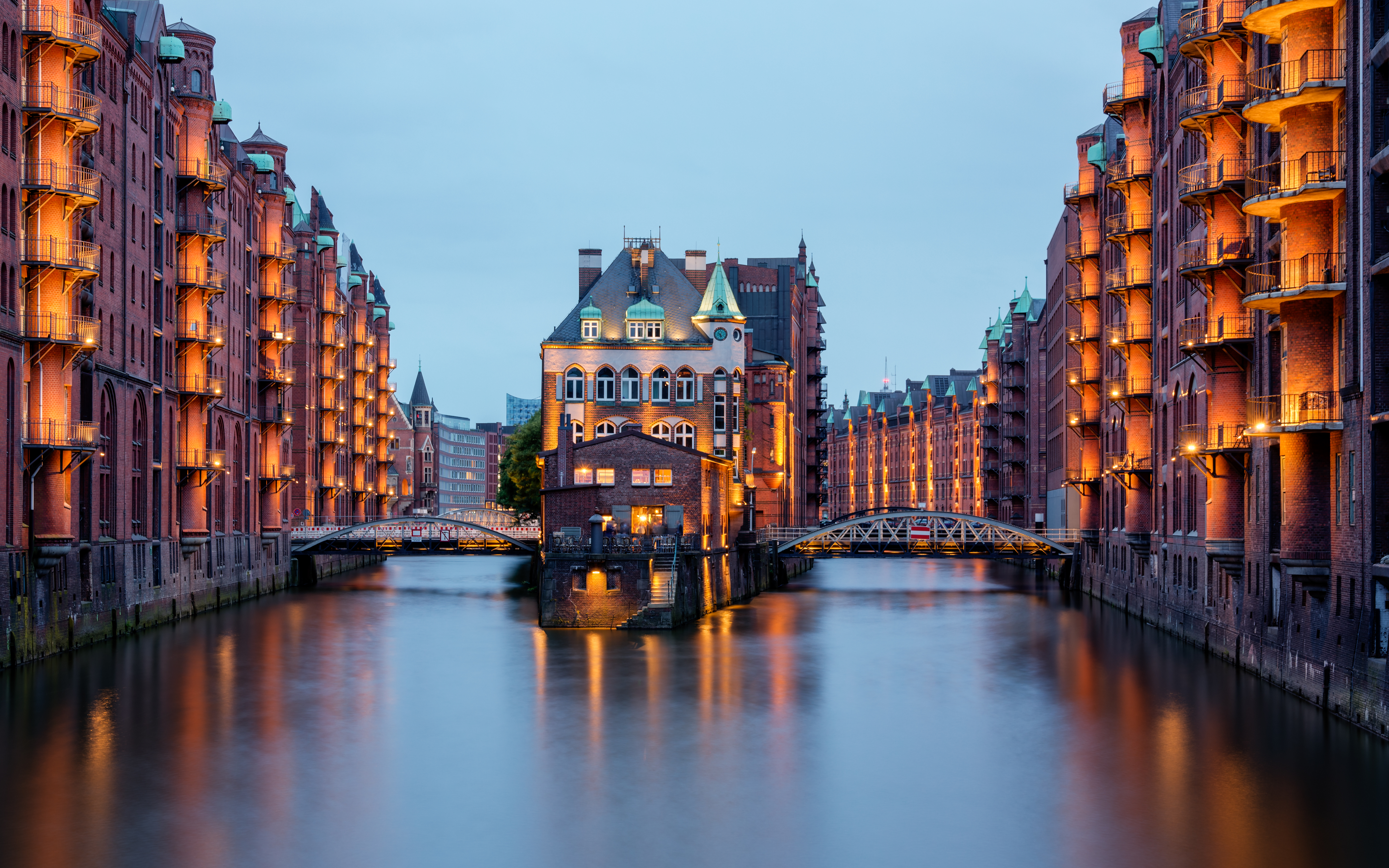 Wasserschloss in the Speicherstadt, Hamburg, Germany This is a photograph of an architectural monument. This is a photograph of an architectural monument.